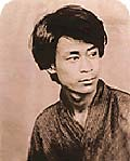 Tomitaro Makino at the age of 25 (1887)